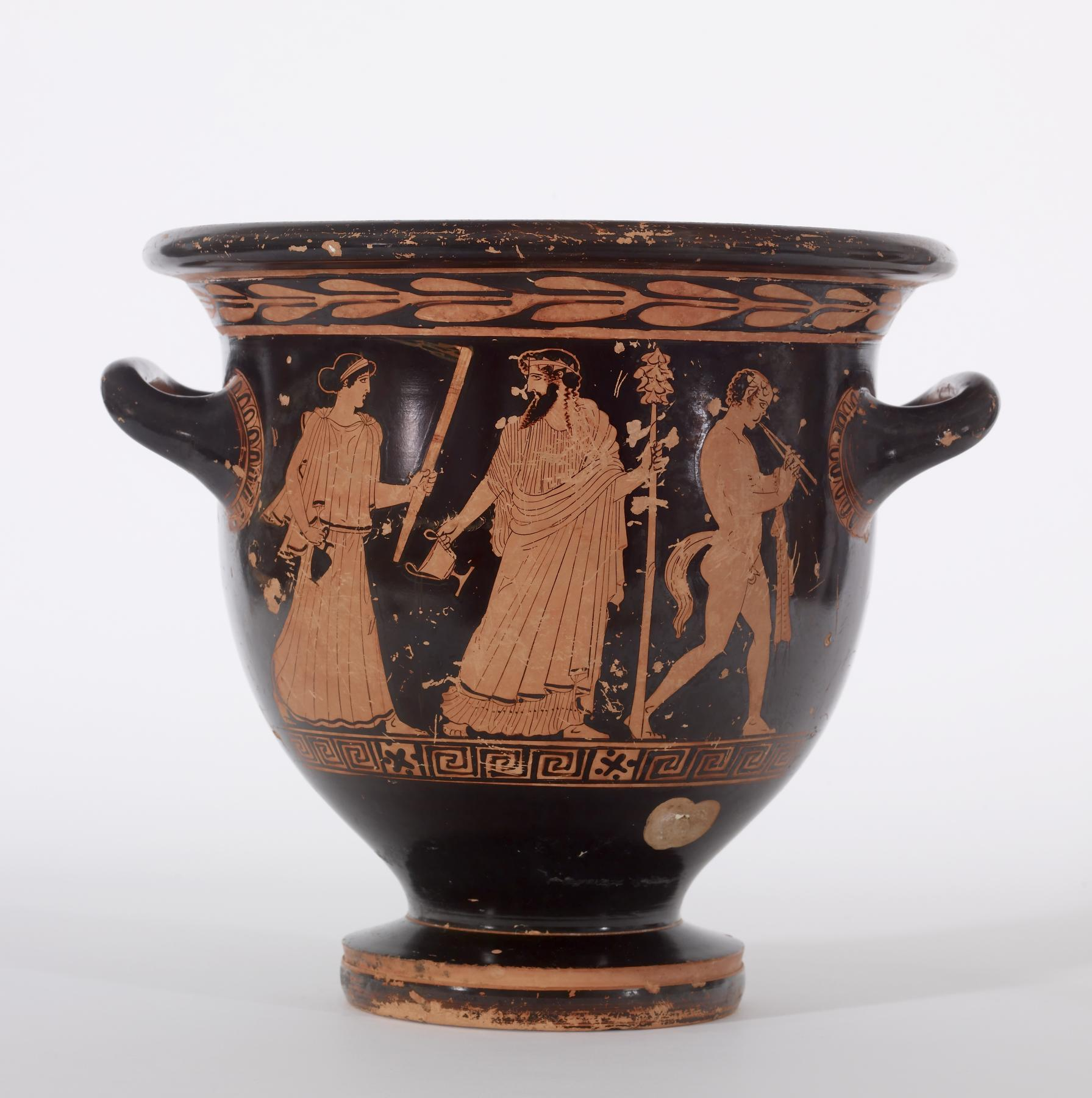 The wine-god Dionysus appears often on vases of this shape (called a bell "krater"), which held wine for drinking parties. He is usually shown as a bearded and majestic god. Here, Dionysus holds a "thyrsus" (a pole often twined with ivy and grapevines and topped with a pine cone) in one hand and a "kantharos" (a high-handled drinking cup) in the other. He turns his head to gaze at a maenad who follows, while a satyr playing the double flutes leads the procession. The maenad carries an "oinochoe" (a wine jug) and a lighted torch, indicating that the group's journey takes place at night.